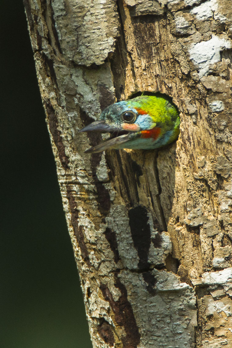 Blue-eared Barbet Psilopogon duvaucelii orientalis, Thailand _S4E7951